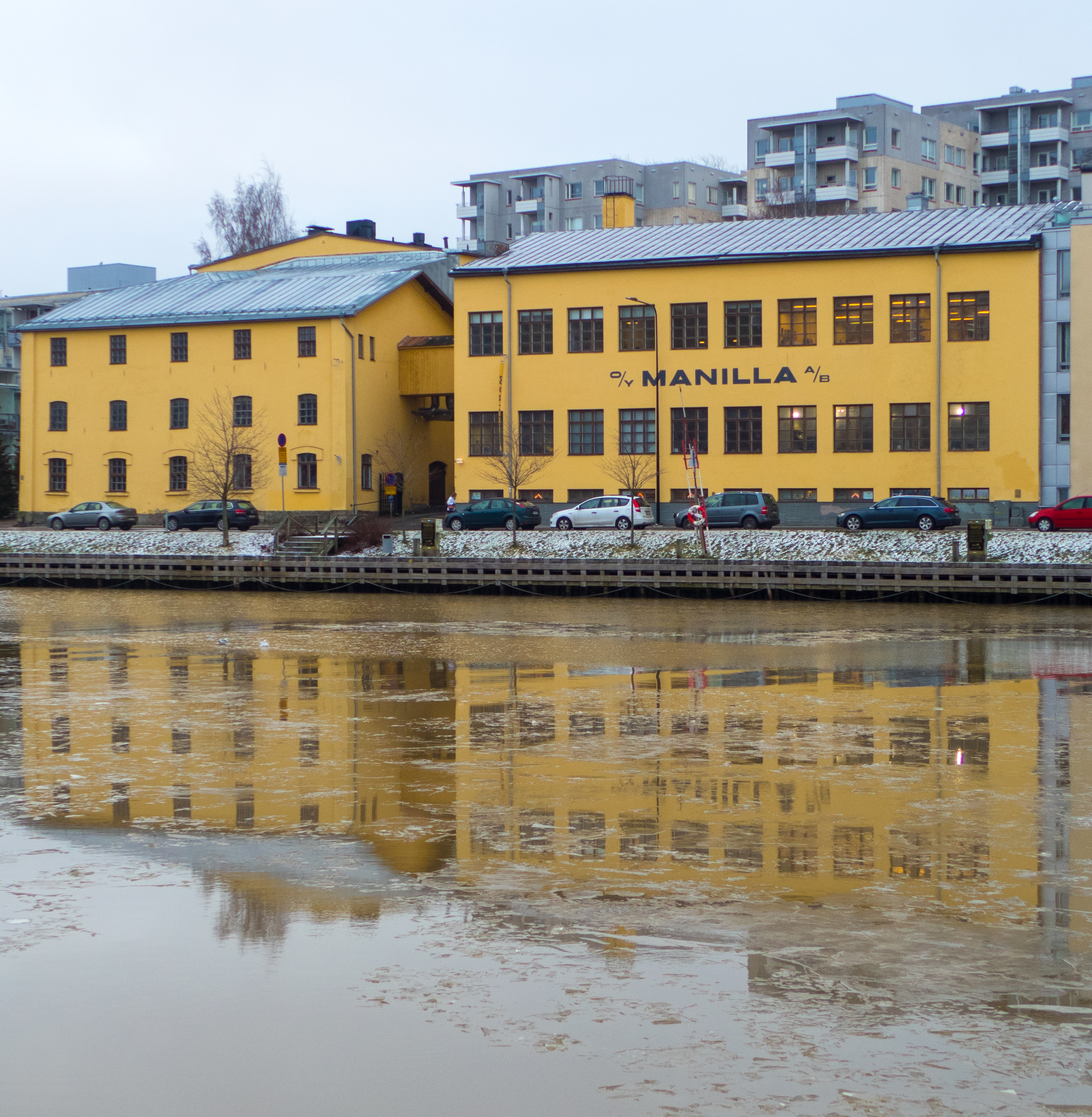 Manilla Kulttuuritehdas, Itäinen Rantakatu, Martti, Turku, Finland